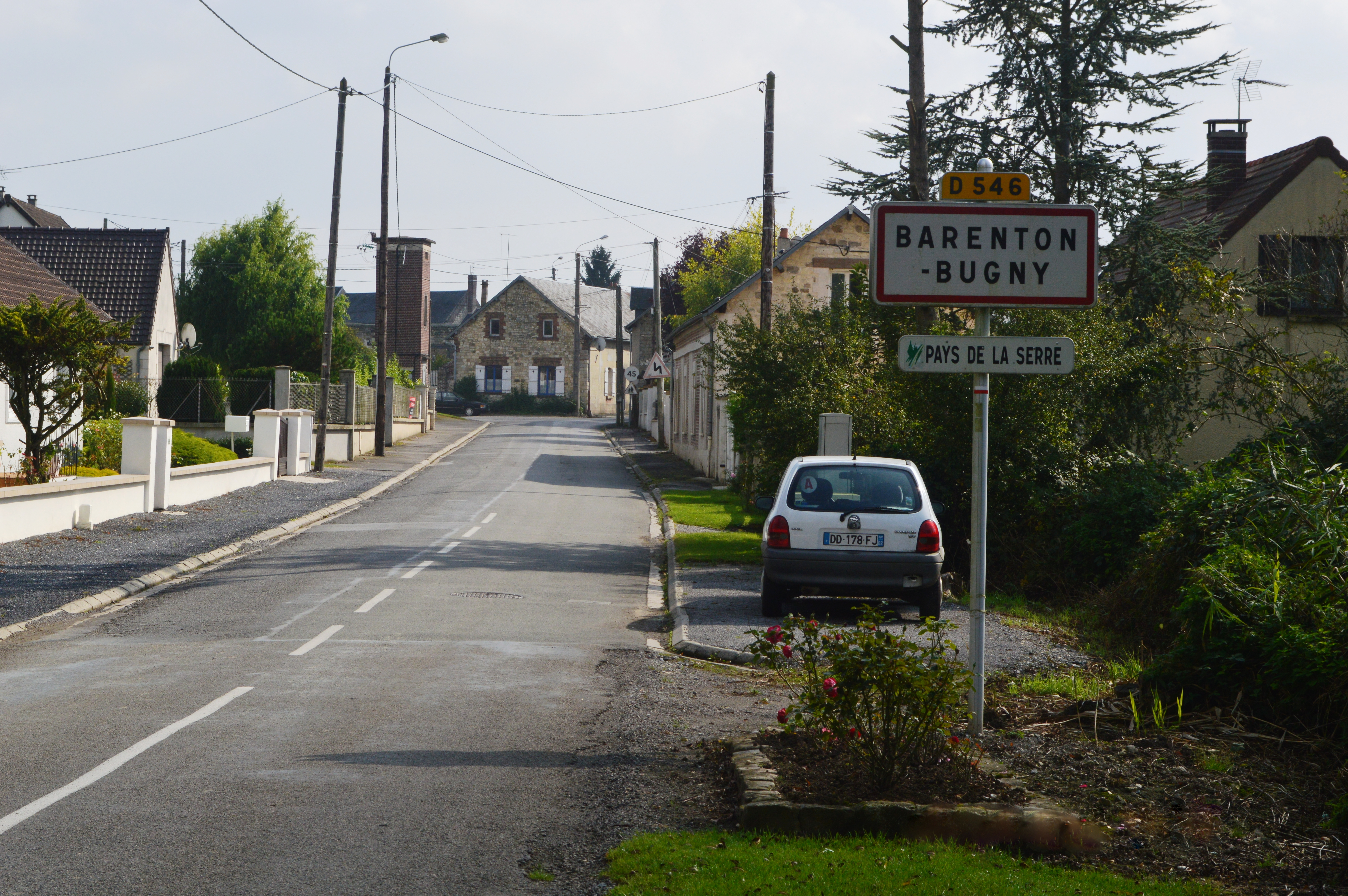 The entry to Barenton-Bugny